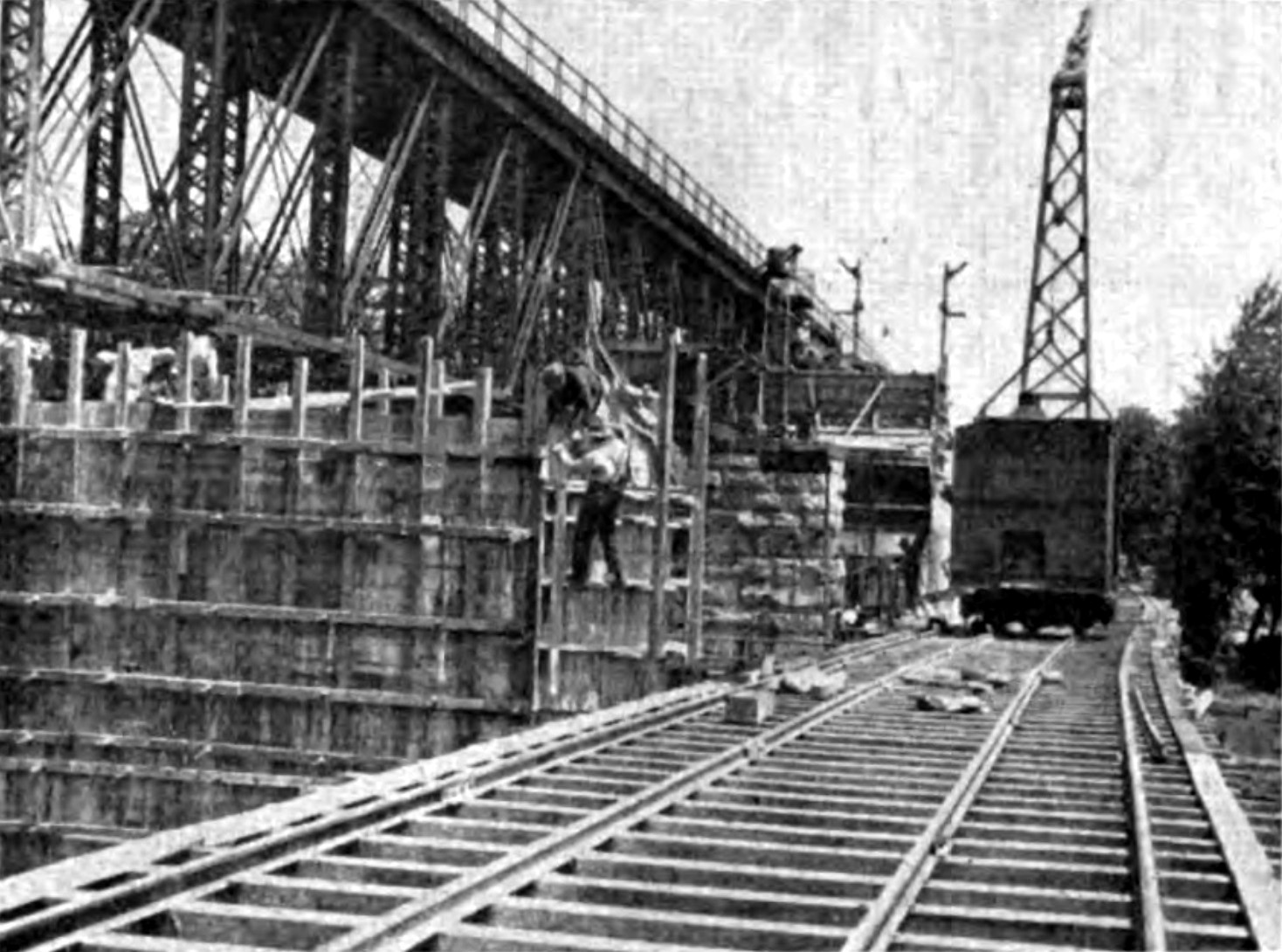 Original Description: Floor of working trestle